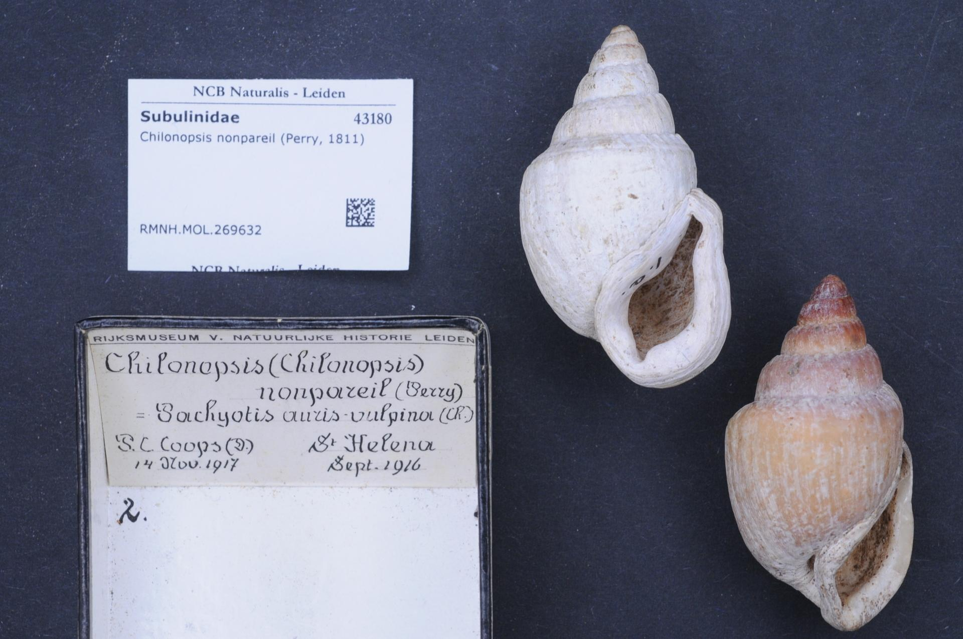 Chilonopsis nonpareil (Perry, 1811)